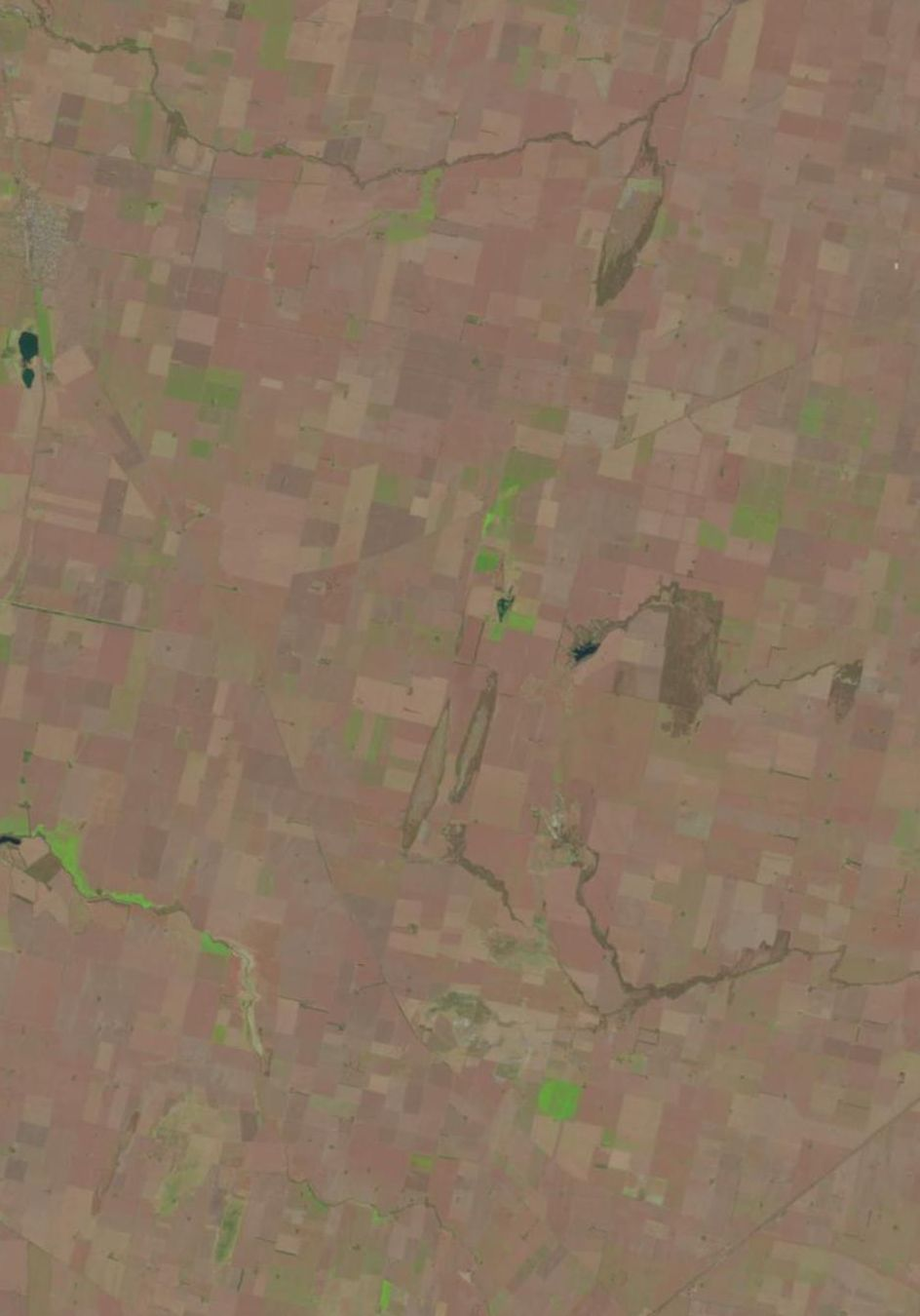 Rio Cuarto crater field in Argentina